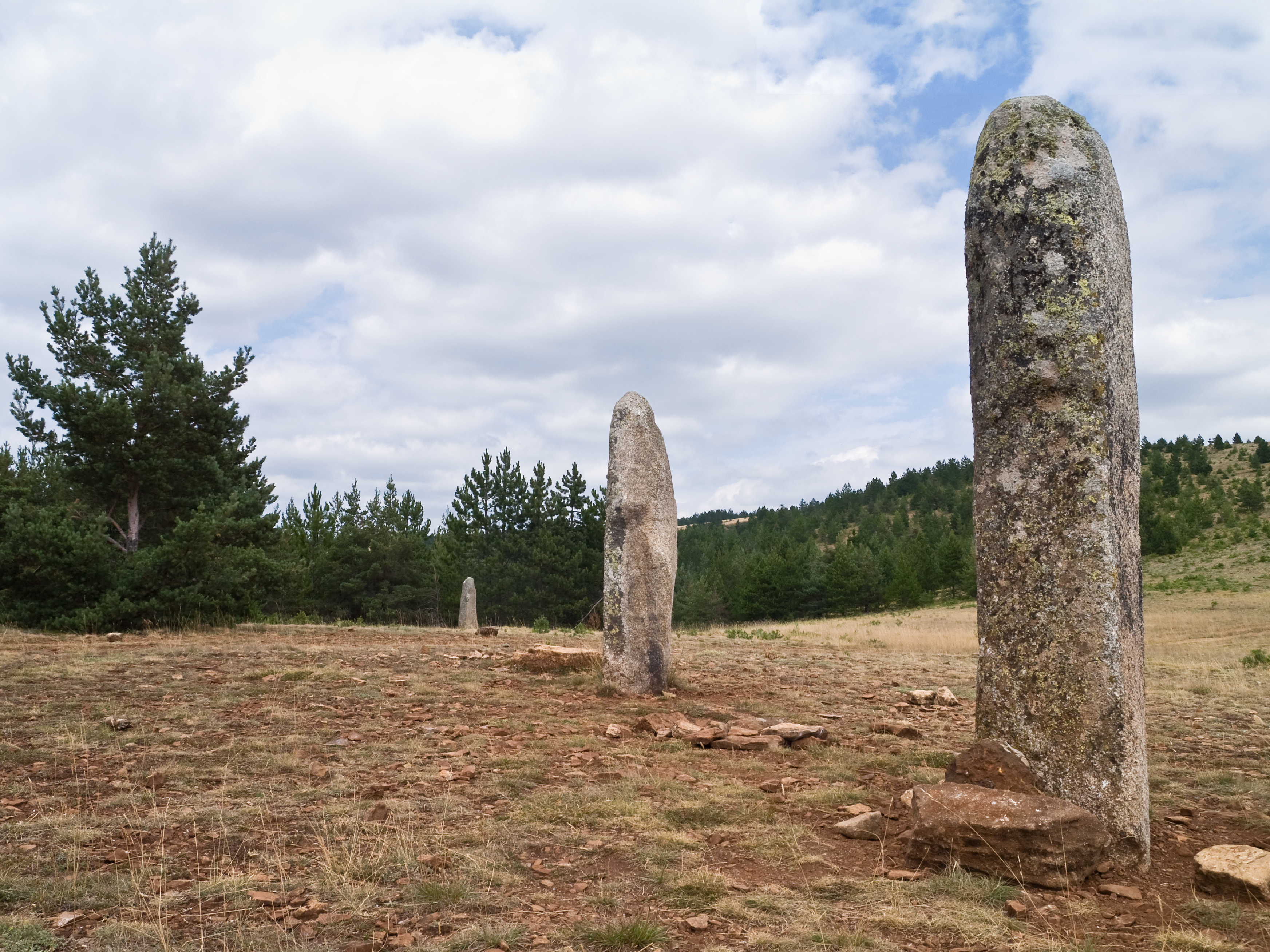 “Cham des Bondons” site, Lozère, France: the stone row with the three menhirs of Chabusse, part of the second group so-called La Fage.